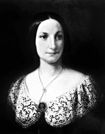 Description: Portrait of Fanny Salvini-Donatelli (1815-1891) Artist: Unknown Date: circa 1845 Provenance: Archives of the Teatro La Fenice. This is a black and white photograph of the original oil painting which was lost in a fire in 1996. Source: "La Traviata" Programma di sala, Teatro La Fenice, p. 155.